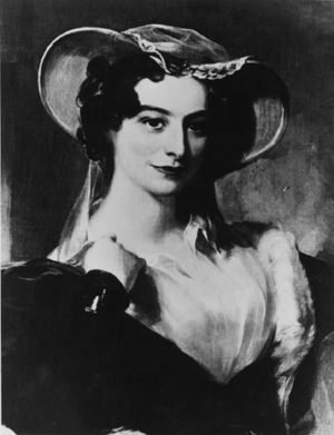 Portrait of Rebecca Gratz, painted by Thomas Sully.